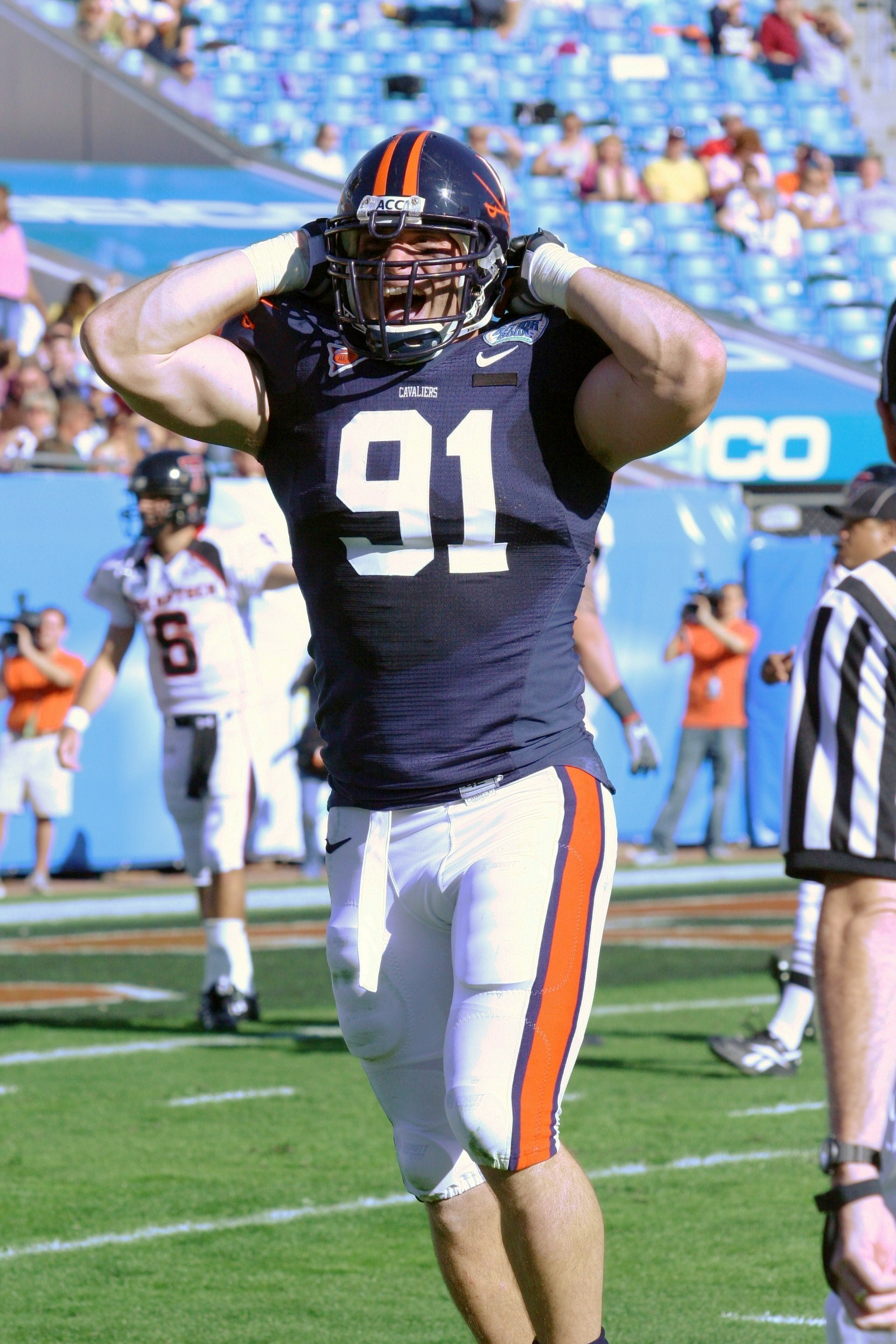 Chris Long at the Gator Bowl 2008 Jacksonville, Fl